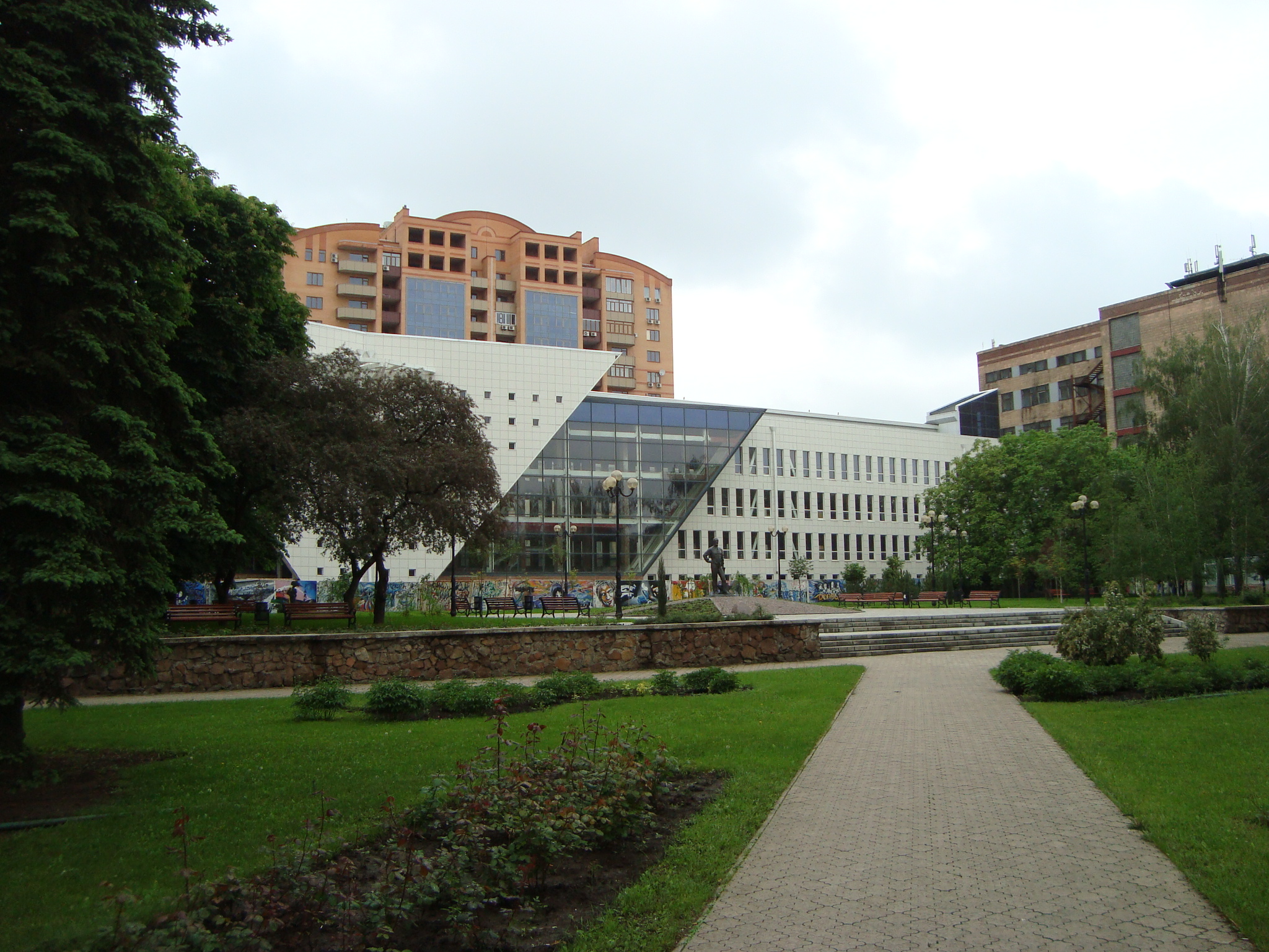 New library